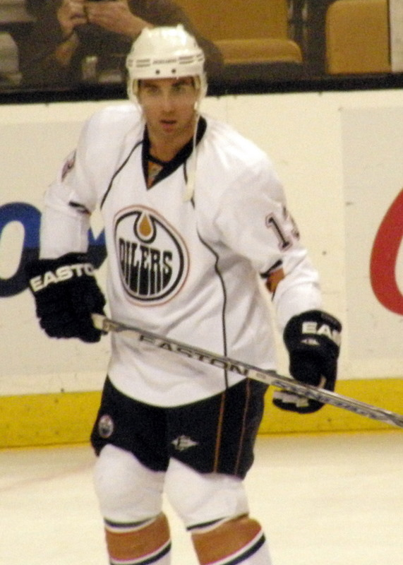 Edmonton Oiler, Andrew Cogliano, #13 Center